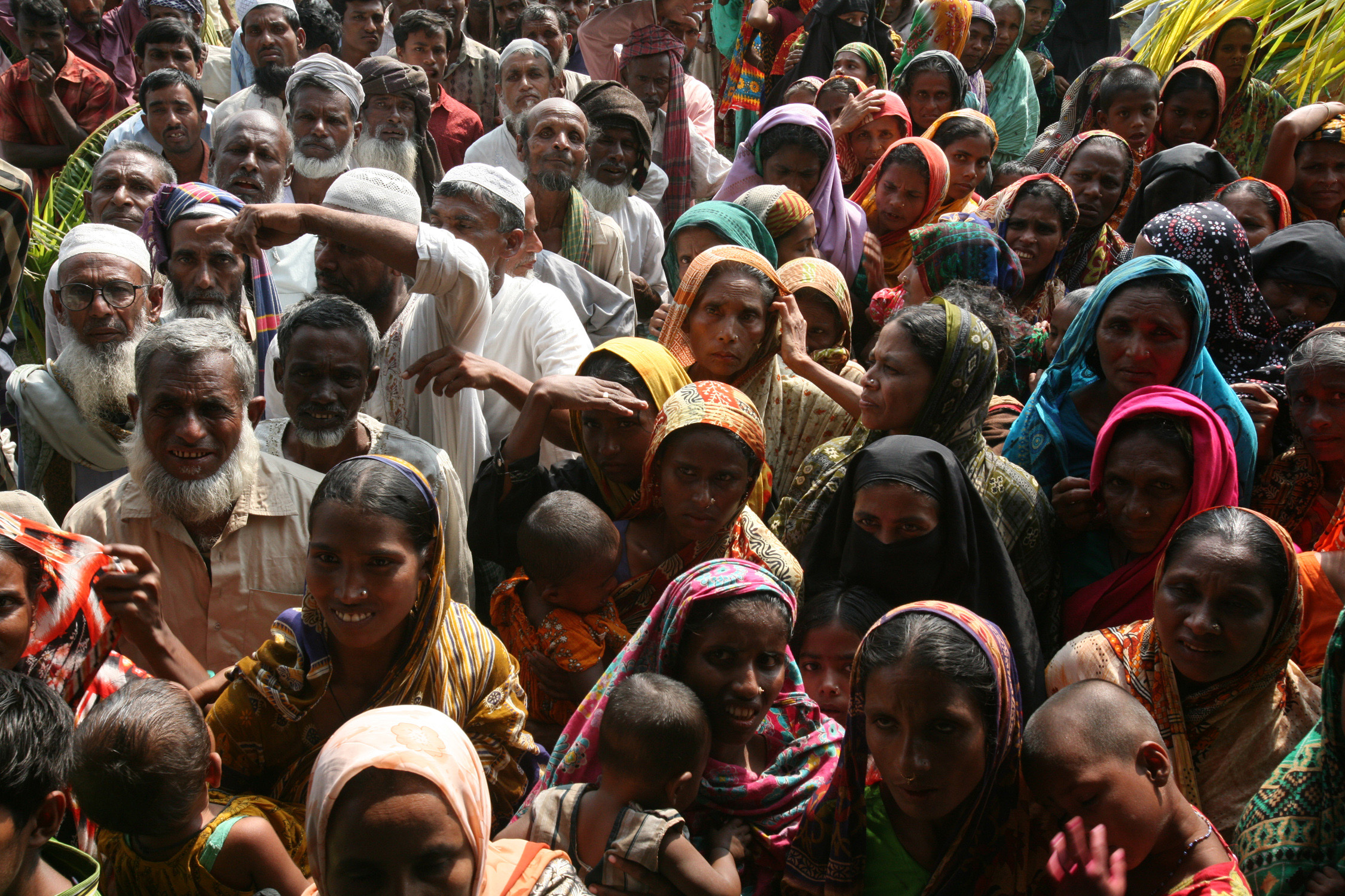 Locals wait to receive medical aid from US medical personnel assigned to 22nd Marine Expeditionary Unit and USS Kearsarge (LHD 3) during a humanitarian aid mission in Rangabali, Bangladesh, December 1, 2007. Kearsarge and embarked 22nd MEU (SOC) are supporting ongoing relief efforts in response to Tropical Cyclone Sidr, which struck the southern coast of Bangladesh November 15, 2007.